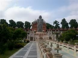 Landmarks of firozabad